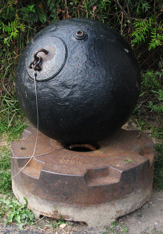 This photo was taken in August, 2010 at Ft. Warren on Georges Island in Boston Harbor. It shows a WW2-era, spherical controlled mine that is on display at the fort. When in use, the mine held 200 lb. of TNT and was anchored to the bottom. This mine is resting on top of its anchor, although when used, it would have floated 20 or more feet above the anchor.The anchor is stamped with the date "1941." The steel loop on top of the mine was used to attach a buoy, which would have floated on the surface, above the mine. The thin steel wire visible here is modern, used to tie the mine to the anchor for exhibition purposes.